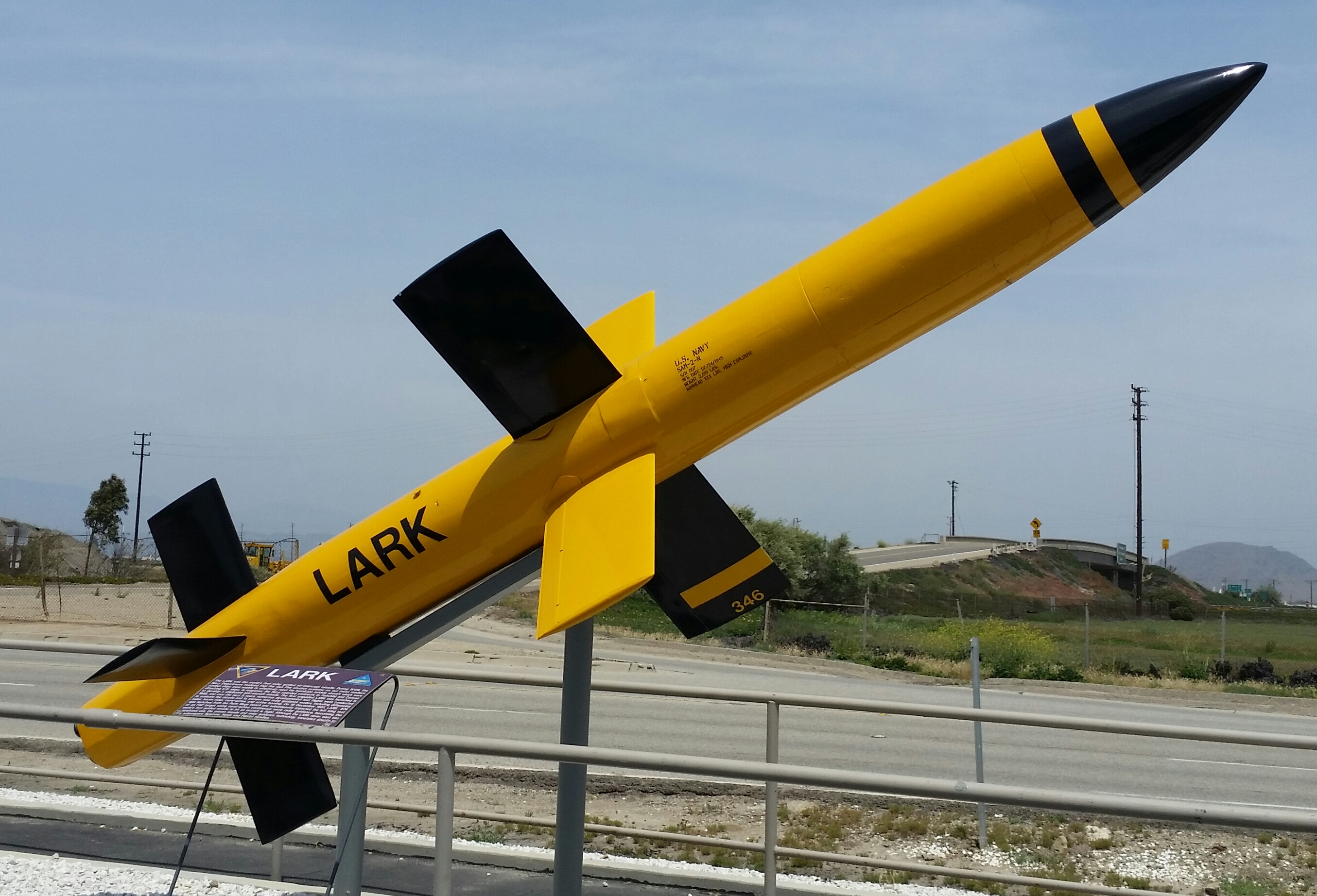 Lark airframe at Point Mugu Missile Park, California